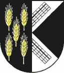 Coat of Arms of Kaltenweide